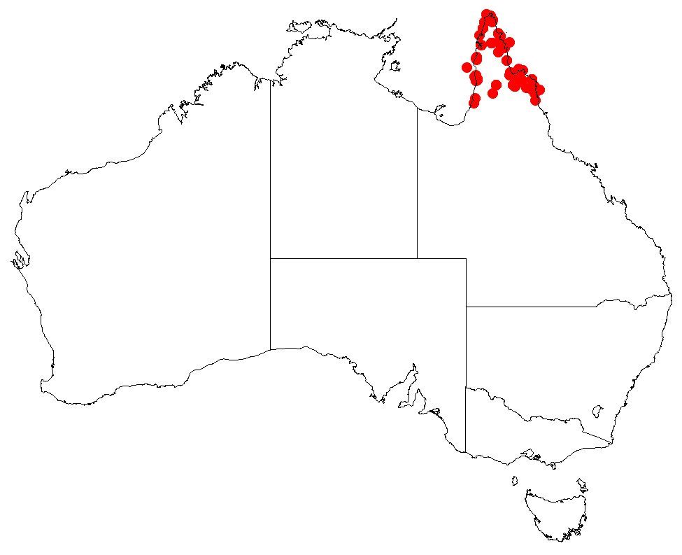 Hakea pedunculata Occurrence data downloaded from Australasian Virtual Herbarium on 22 November 2018 using